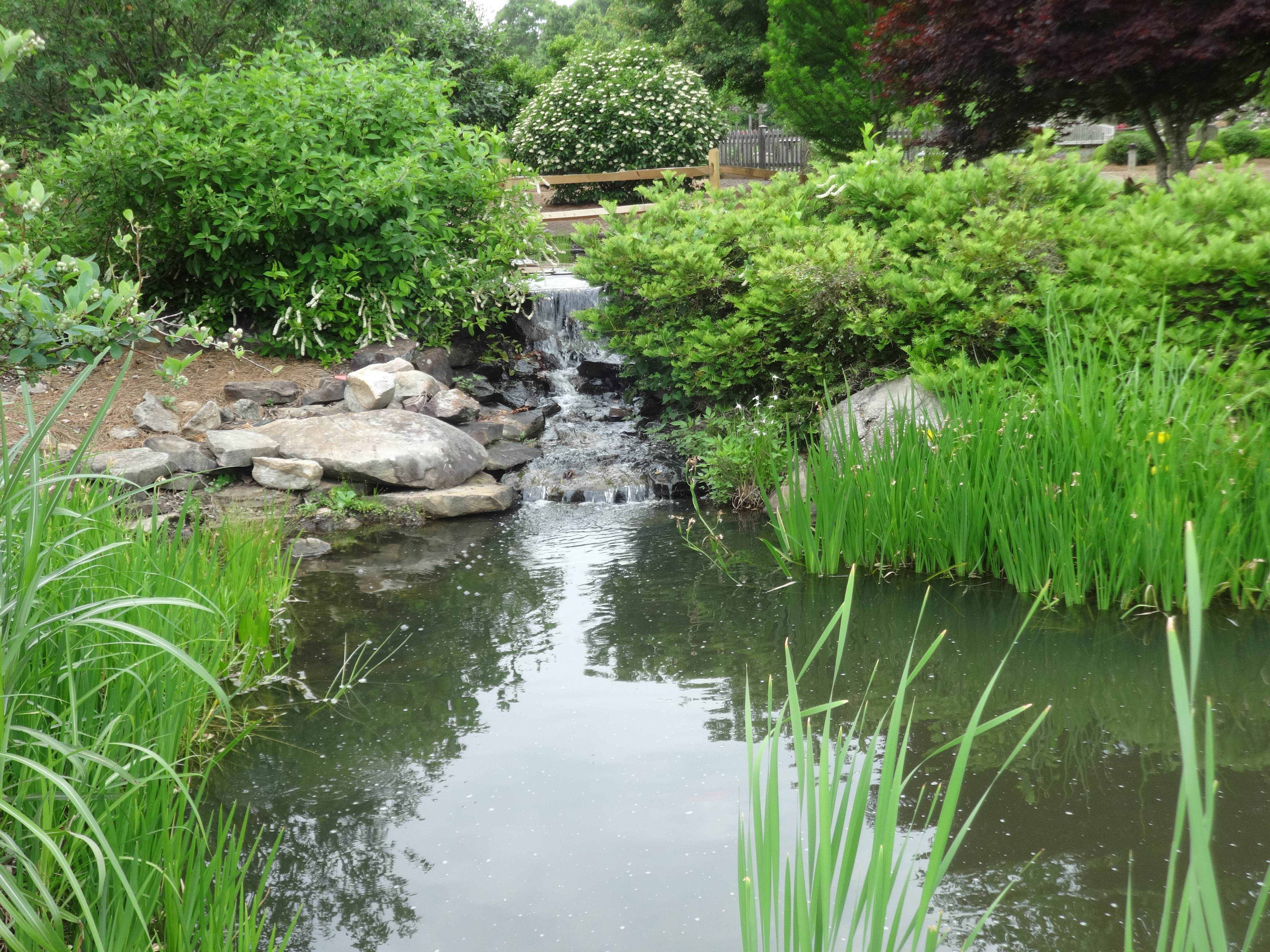 University of Georgia, Research and Education Garden, Griffin, Spalding County, Georgia